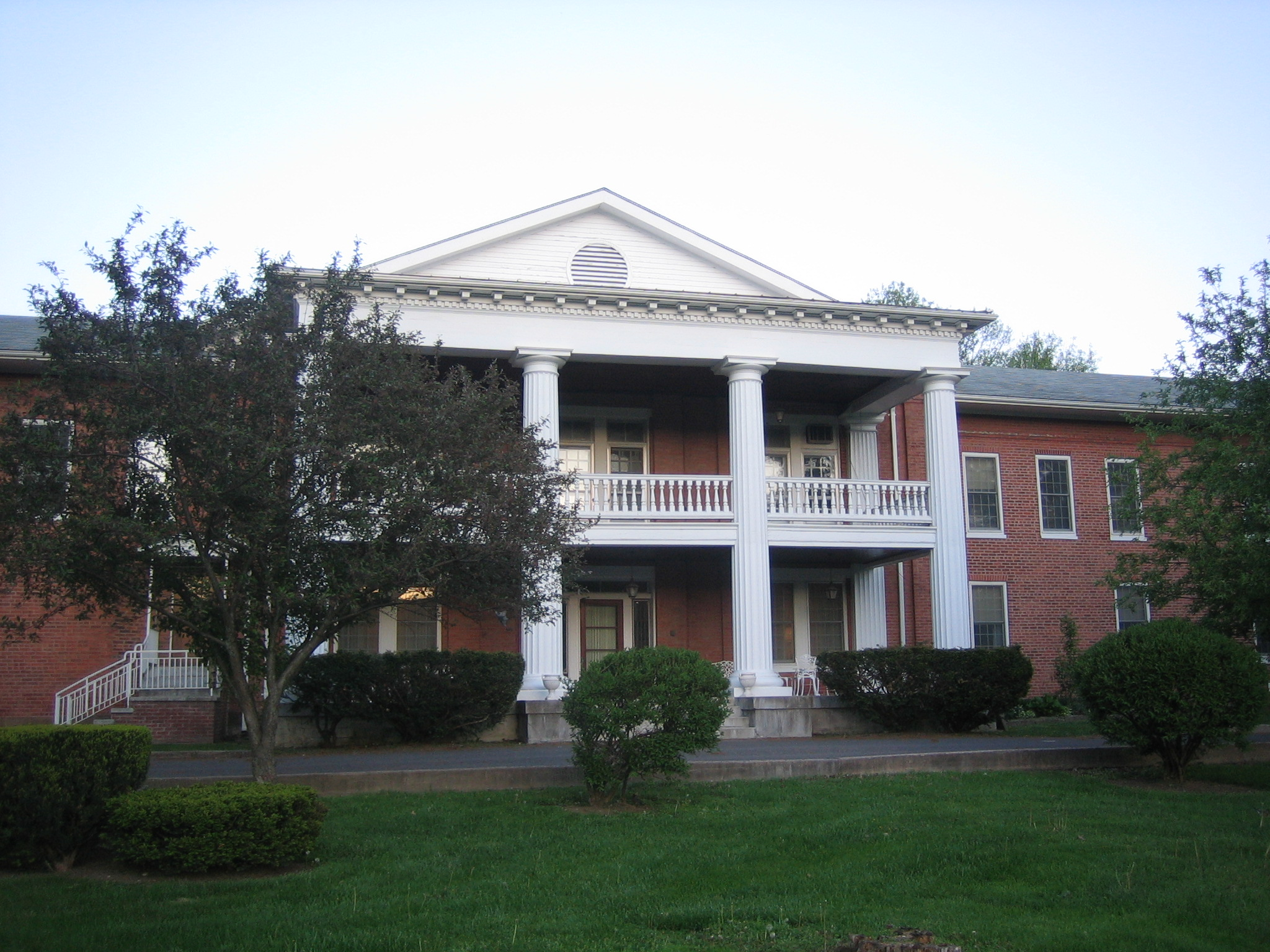 West Virginia Schools for the Deaf and Blind Administration Building (formerly Romney Classical Institute, built 1846) in Romney, West Virginia, United States.